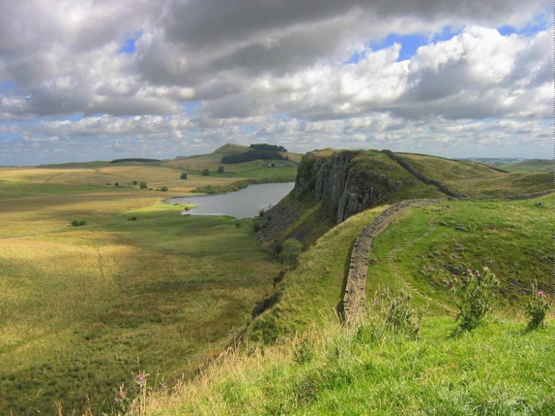 Hadrian's wall between Housesteads and Once Brewed.